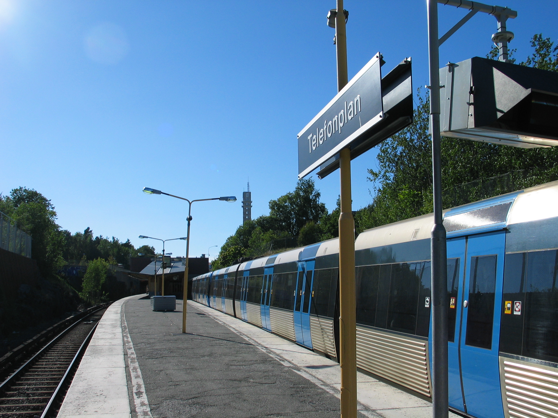 Telefonplan, a metro station in Stockholm, Sweden.